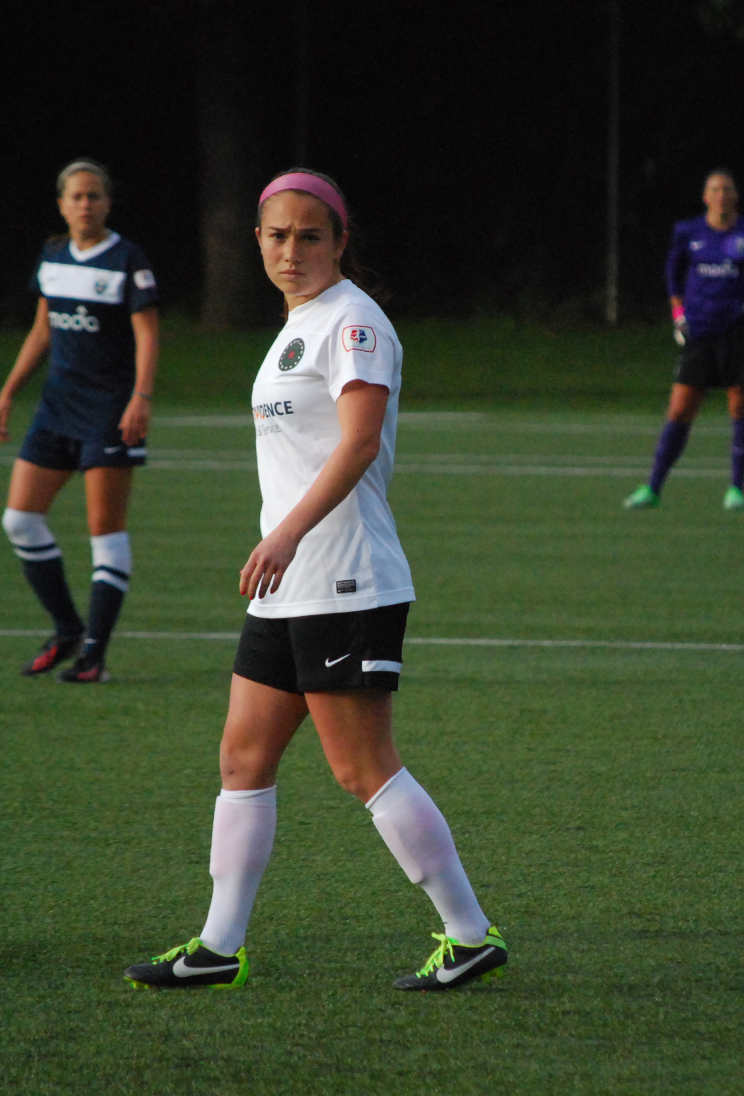 Meleana Shim of the Portland Thorns during Seattle Reign FC vs Portland Thorns at Starfire Stadium in Tukwila, Washington on May 25, 2013